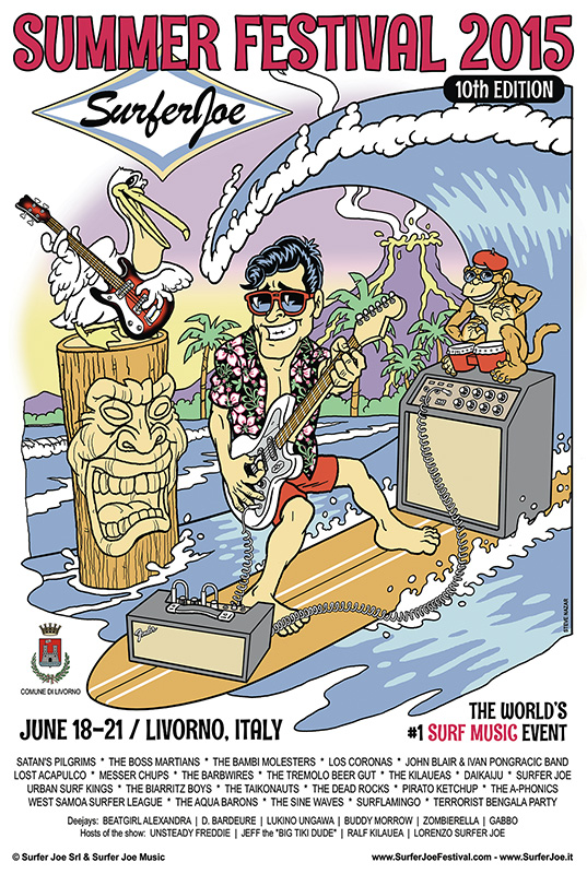 Poster of Surfer Joe Summer Festival 2015 by Steve Nazar